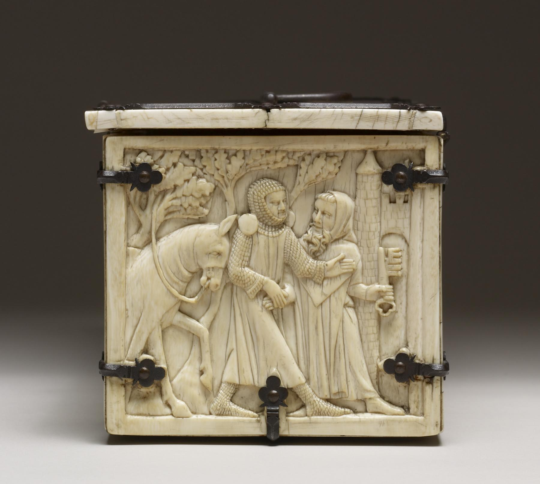 This splendid casket is carved with scenes from romances and allegorical literature representing the courtly ideals of love and heroism. In the center of the lid, knights joust as ladies watch from the balcony; to the left, knights lay siege to the Castle of Love, the subject of an allegorical battle. The remaining scenes on the casket are drawn from well-known stories about Aristotle and Phyllis, Tristan and Iseult, and tales of the gallant, heroic deeds of Gawain, Galahad, and Lancelot. The box may originally have been a courtship gift.